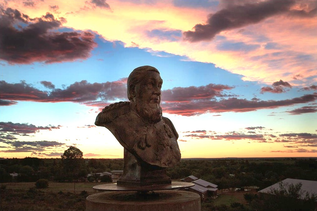 Bust of Paul Kruger on Monumentkoppie, Orania"Oom Paul se borsbeeld staan al vir baie lank in vrede op Monumentkoppie in Orania. Dit is hoe erfenisbewaring moet lyk."